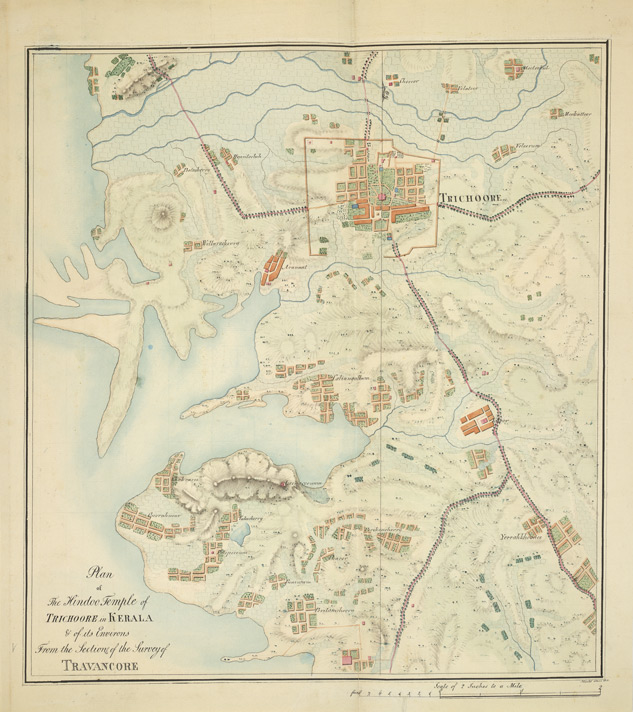 MacMPen-and-ink and water-colour drawing of the plan of the Hindu temple at Trichur, by John Gould, dated 11 June 1816. Inscribed on front in ink: 'Plan of the Hindoo Temple of Trichoore in Kerala & of its Environs. From the Section of the Survey of Travancore. J. Gould 11th June, 1816.' Travancore, one of the three princely states of Kerala, consists of three natural divisions, a coastal area dotted with lagoons to the west, a midland in the centre and mountain peaks as high as 9,000 feet on the east. One of the most important Hindu complex of Kerala is the Vadakkunatha Temple at Trichur, founded in the 12th century and later reconstructed in the 19th century. The temple houses three shrines (srikovils) facing west, aligned in a single row in a rectangular court surrounded by a colonnnade. The northern one is a circular temple known as Vadakkunnatha, dedicated to Shiva. That at the south is dedicated to Rama. The central of the three temples is dedicated to Shankara Narayana (Hari-Hara), the combined form of Shiva and Vishnu and has a double-roofed circular srikovil. The conical timber roofs are covered with metal and crowned with pot finials. To the west of each shrine is an open pavilion. In the north-west corner of the outer court there is a hall for theatrical performances called kuttambalam, with an impressive overhanging pyramidal roof. The temple has preserved fine wood carvings and mural paintings. This image falls into the public domain as it was taken in India prior to 1 January 1951, and was not published in India after that date. It is in public domain in the United States as well as it was taken prior to 1 January 1951.